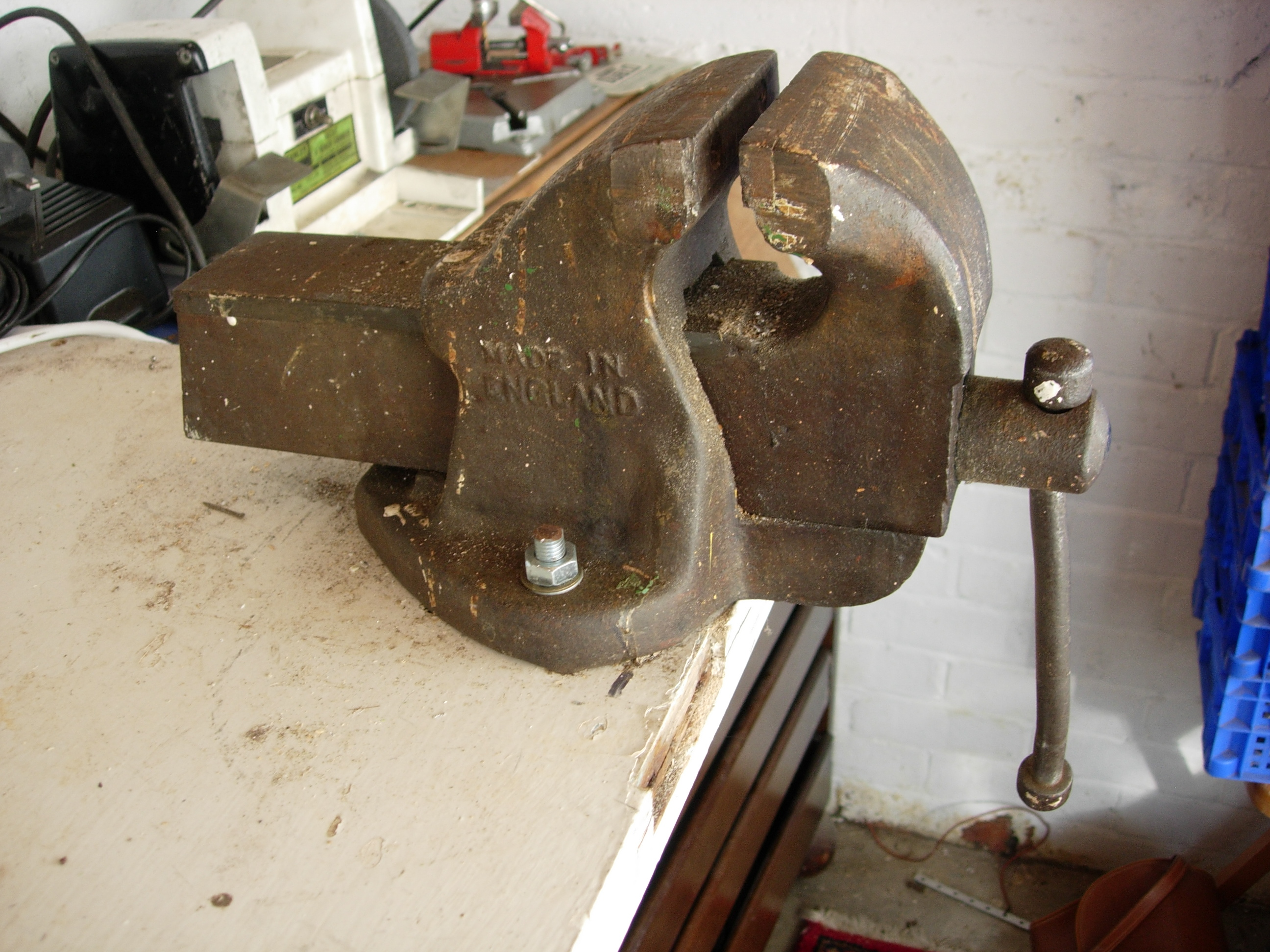 . . . . in my workshop. I purchased this at a local bootfair. The seller informed me that it originated from Lancing Carraige works,formerly a part of the London Brighton and South Coast Railway. If true an interesting history behind this old workhorse.